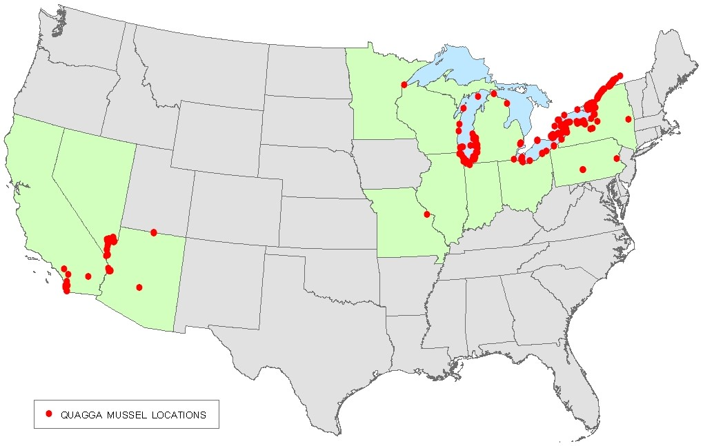 Map of the United States showing the distribution of Dreissena bugensis (quagga mussels)